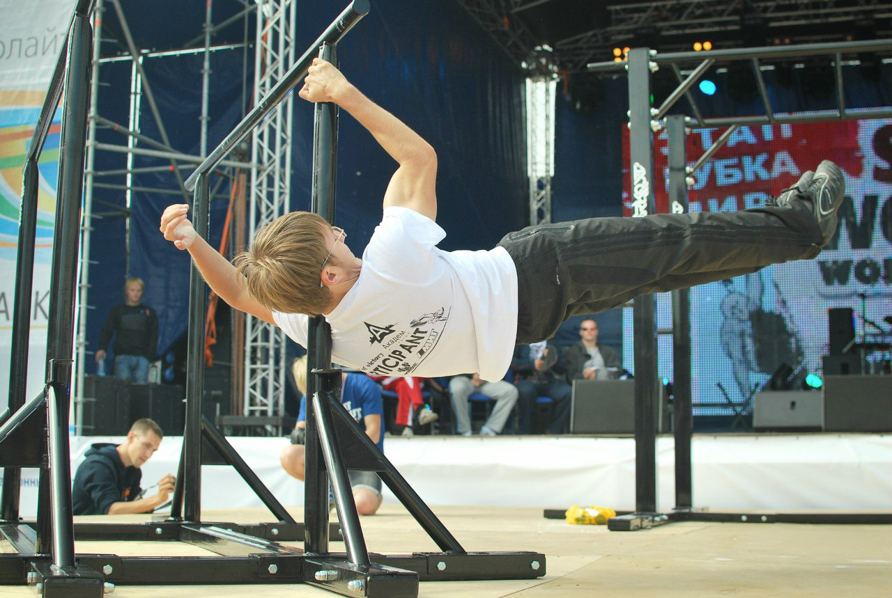 Human flag (dragon).